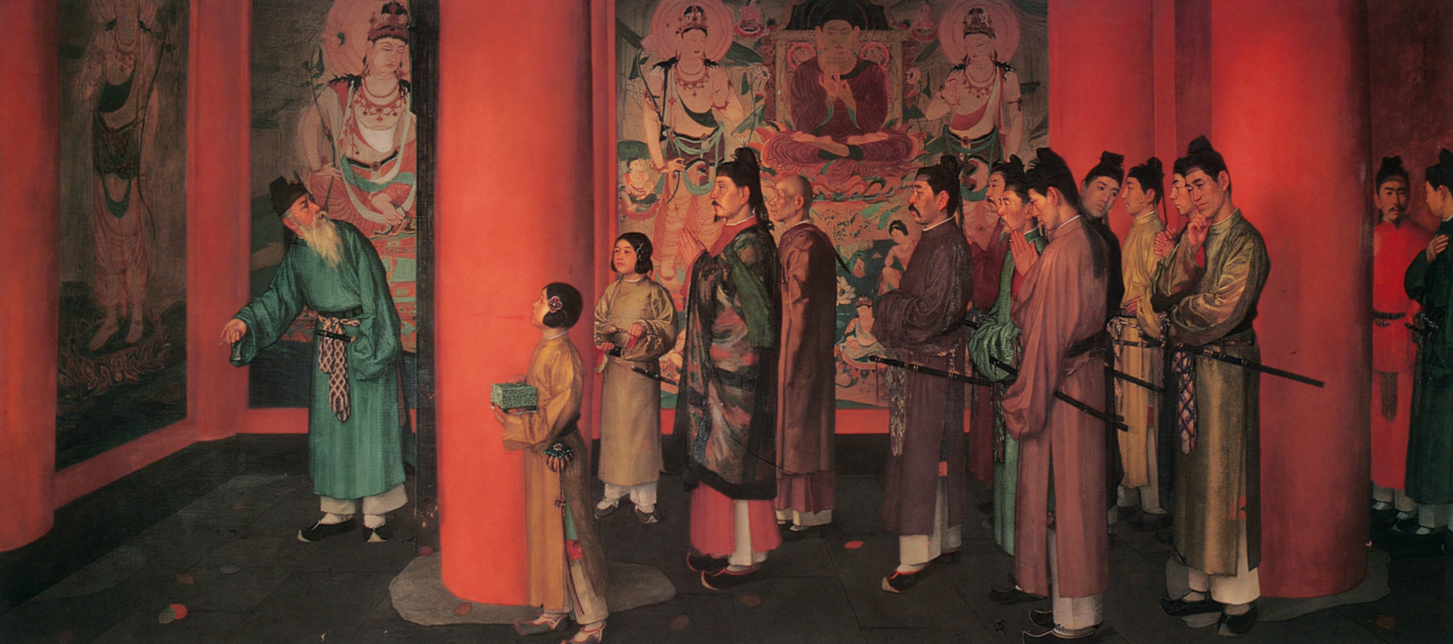 Celebration of the Completion of the Kondo, by Wada Eisaku, Horyuji, Japan; in the possession of Horyuji